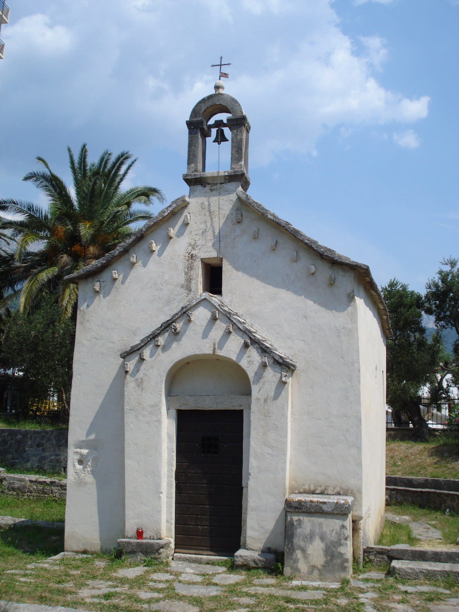 The Church of St. George (14th century), Tučepi, Croatia - front view